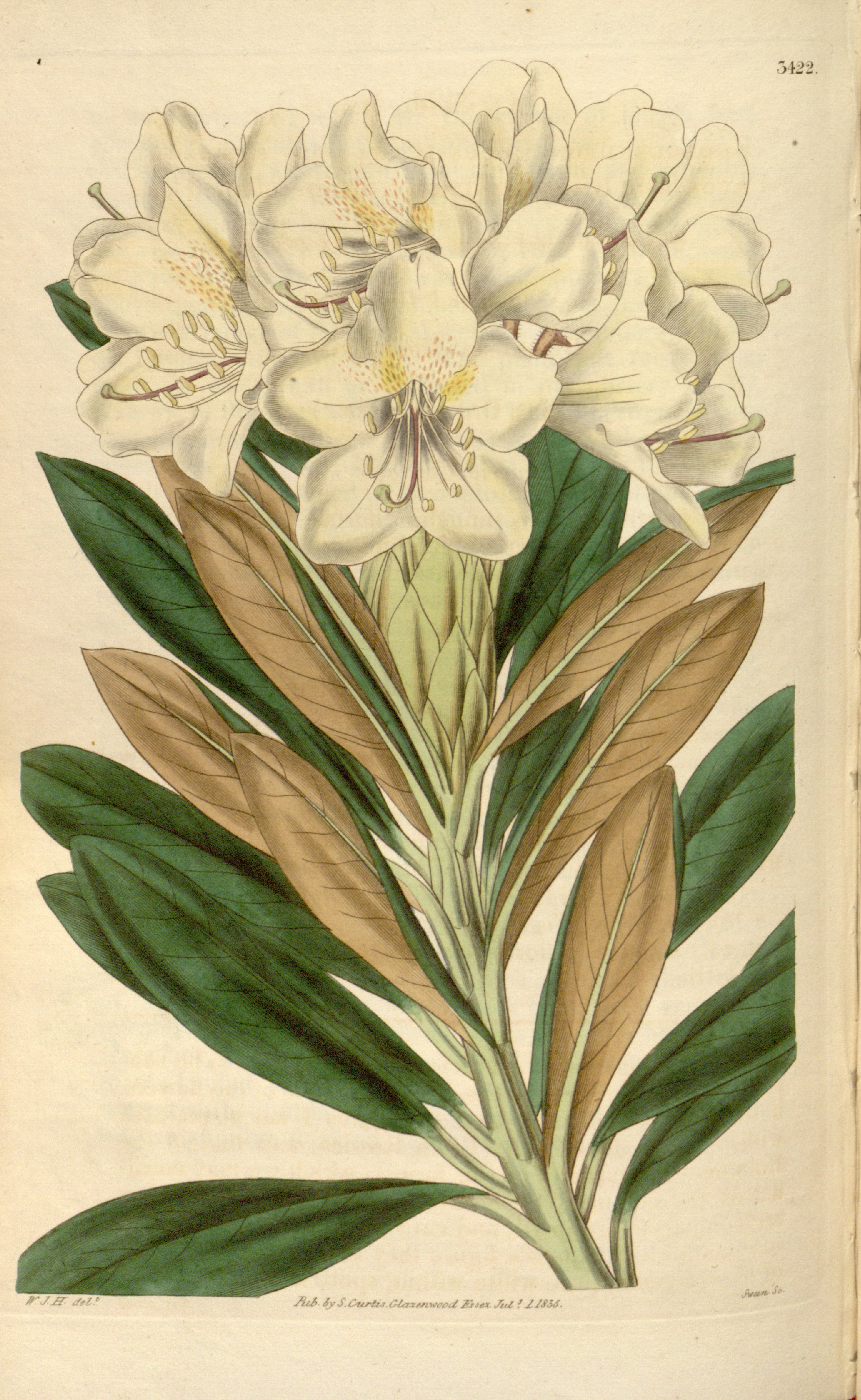 Rhododendron caucasicum, as Rhododendron caucasicum var. stramineum